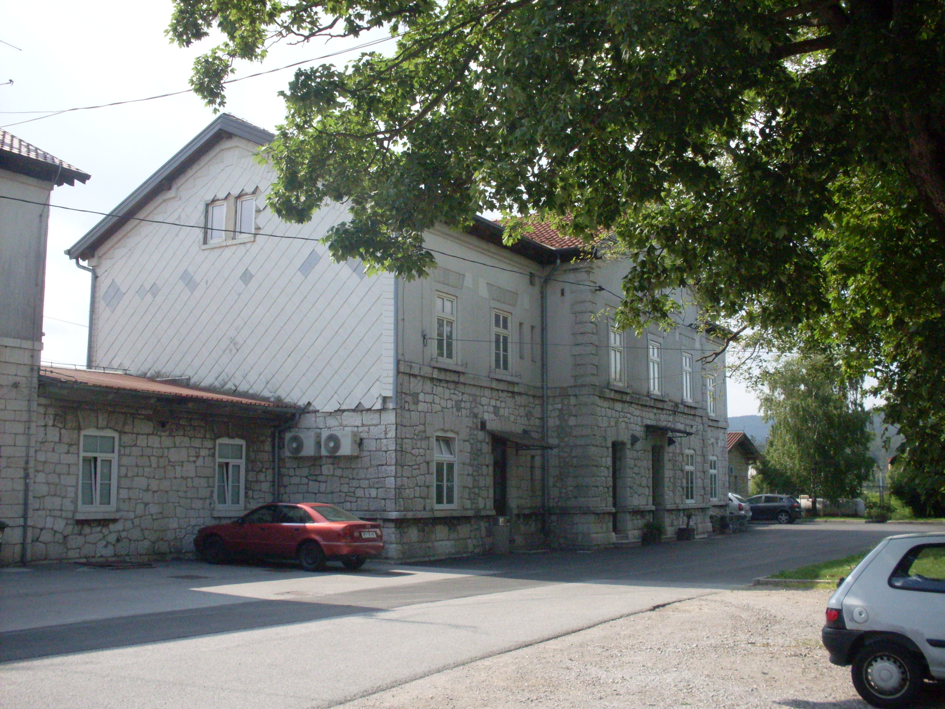 Front ("street") side of the Hrpelje - Kozina train station